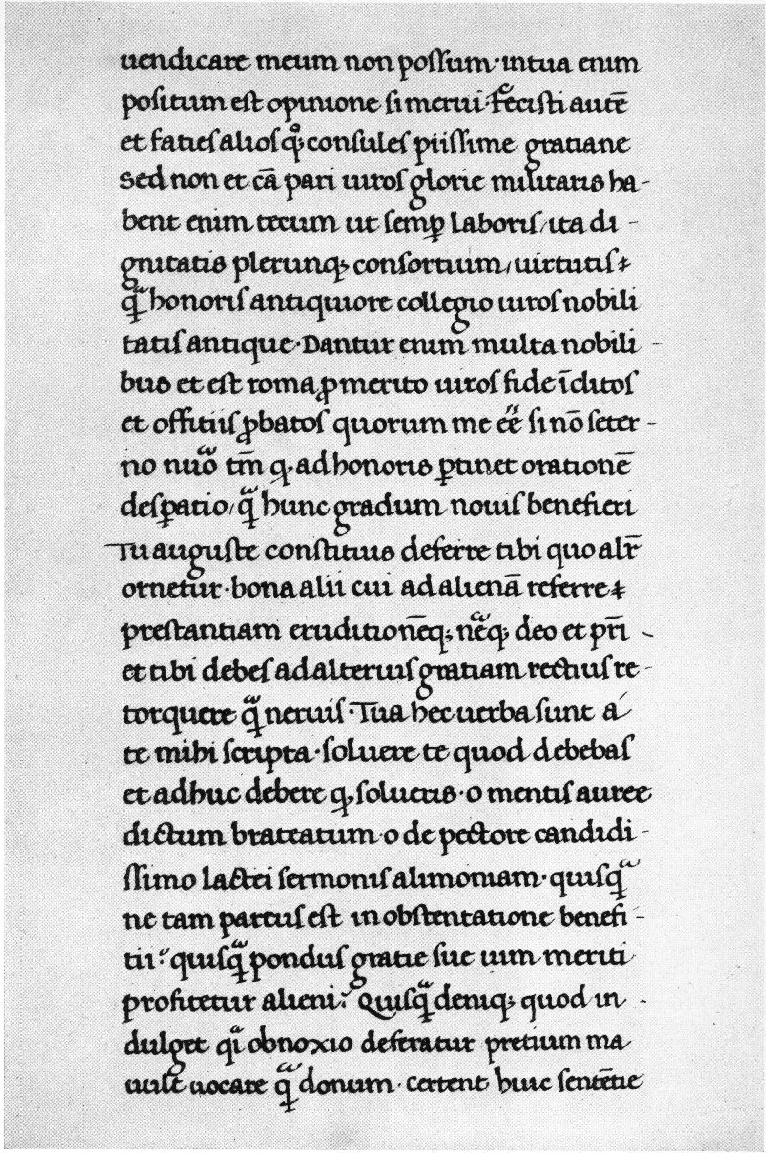 Ausonius, solemn speech of thanks to emperor Gratian in 379 on the occasion of his consulate. Biblioteca Apostolica Vaticana, Ms. Barb. lat. 150.